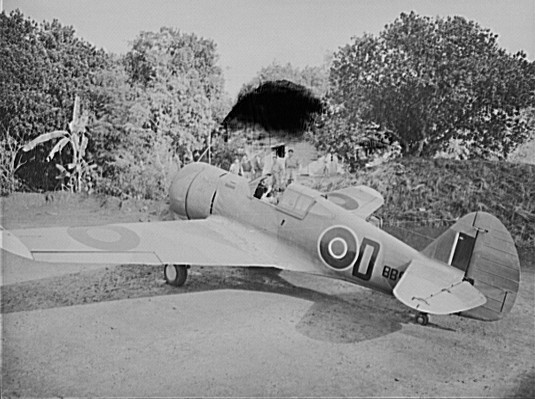 A Royal Air Force Curtiss Mohawk Mk.IV fighter (s/n BB977) in India in January 1943. No 5 and No 155 squadrons RAF used the Mohawk in India in 1942/43. Original caption: "United States "lend-lease" program in eastern India. Mohawk fighter readies to take off at an air field in India. Planes like this one were originally build for the French and later taken over by the British under lend-lease. The ground crew stands in the background as an R.A.F. (Royal Air Force) pilot taxis his lend-lease Mohawk fighter to the runway."